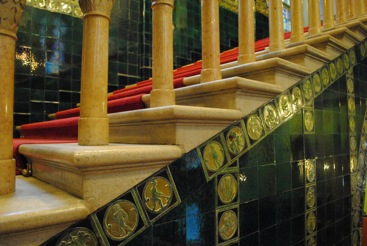 Detail of stairways in Subotica's City Hall